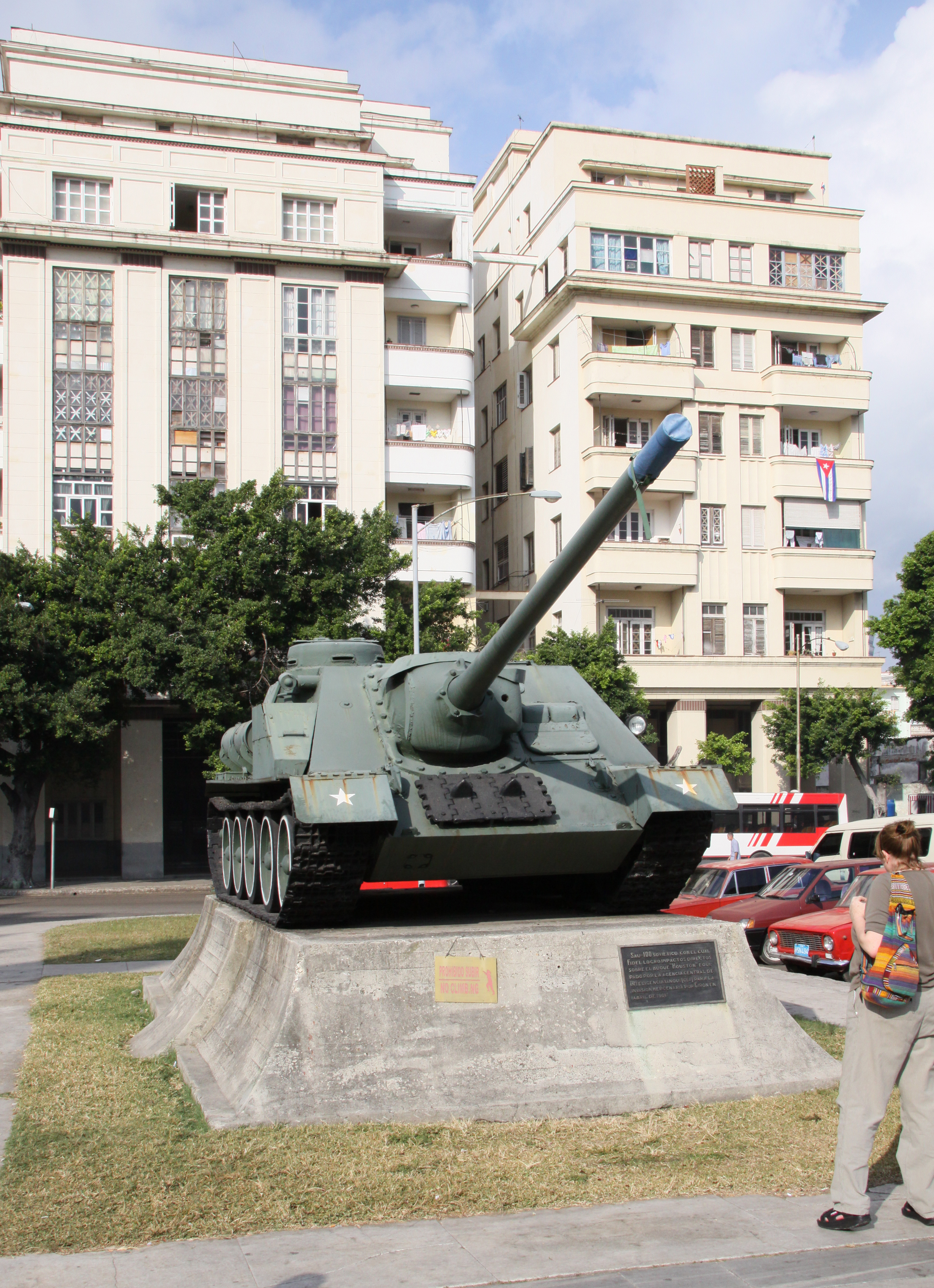 Museum of the Revolution Su 100 Tank Destroyer